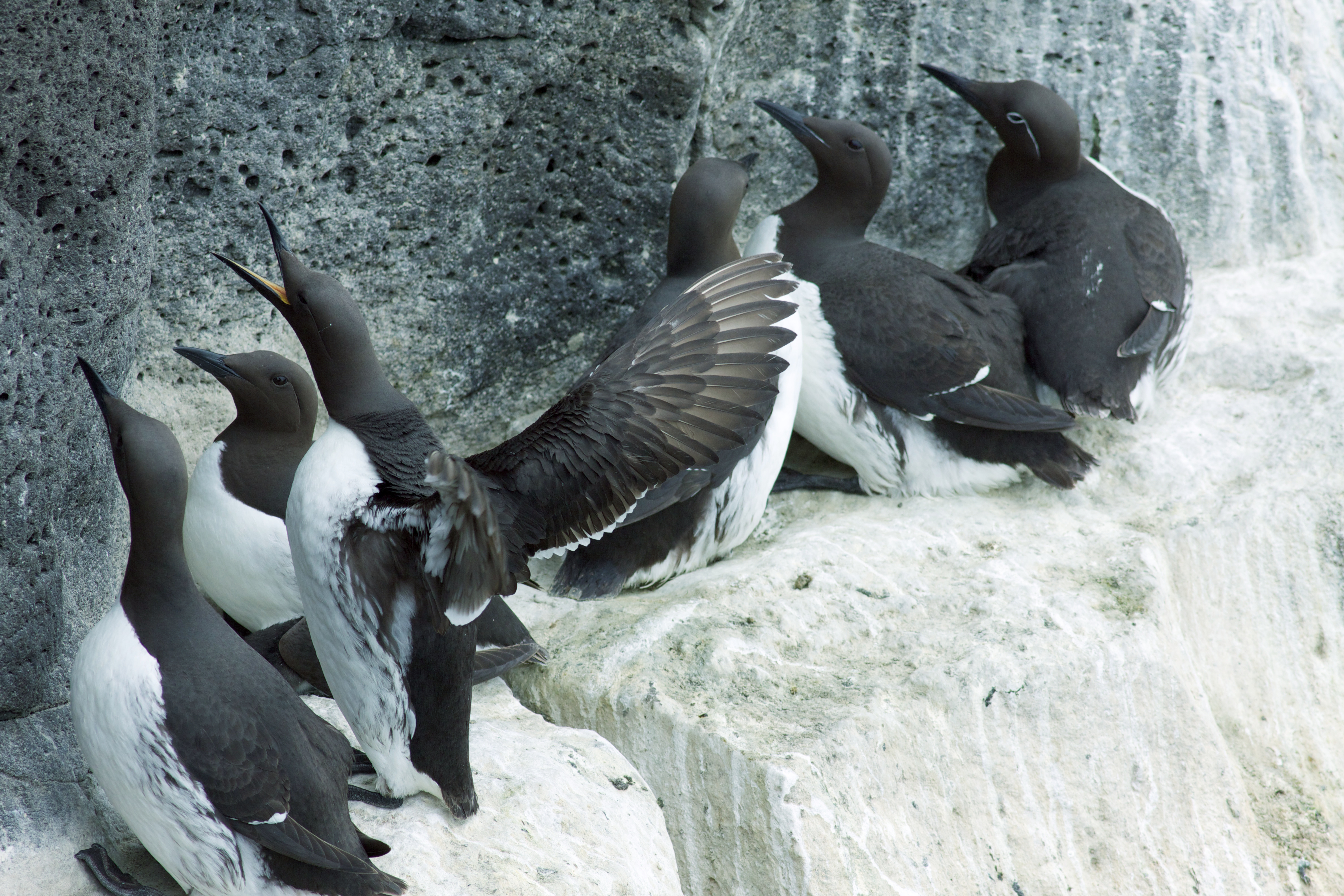 Common Guillemots in Reykjanes, Iceland.